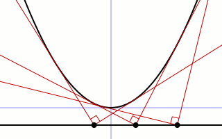 Isoptic Curve Sample: parabola